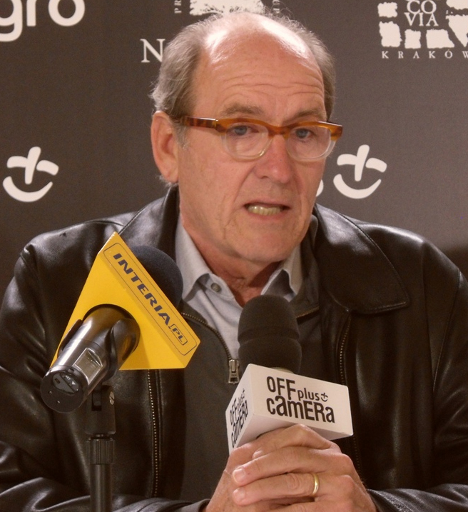 Richard Jenkins speaking at a panel at an independent film festival in Kleparz, Krakow, Lesser Poland.